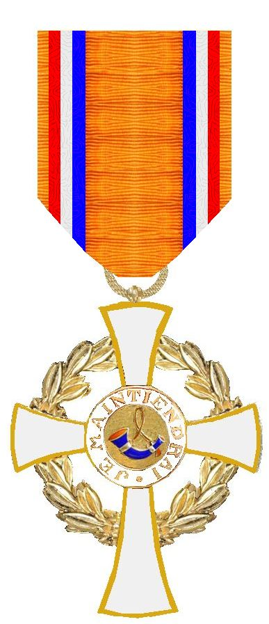 Knights cross of the Order of the Crown, The Netherlands